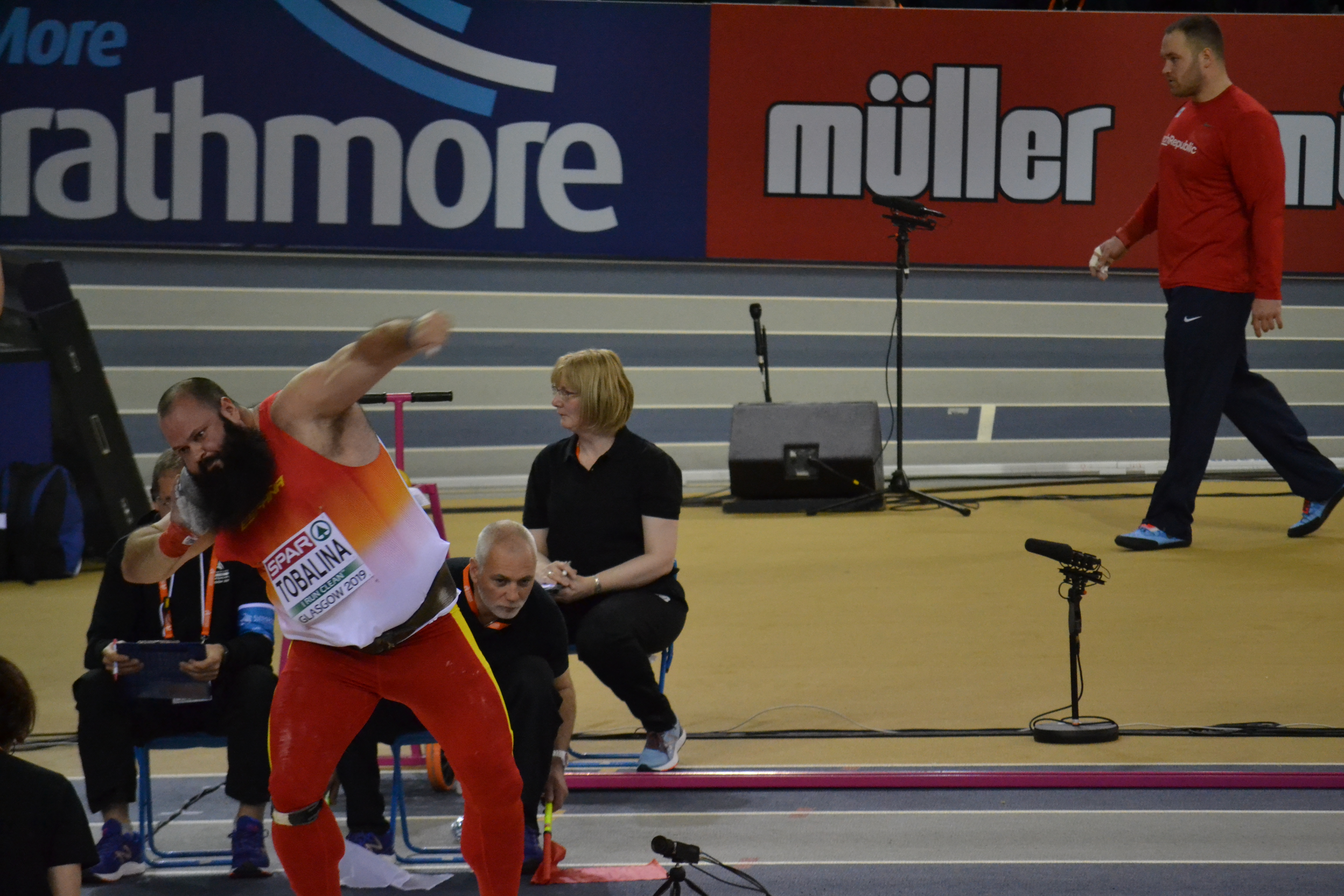 Mens Shot Put